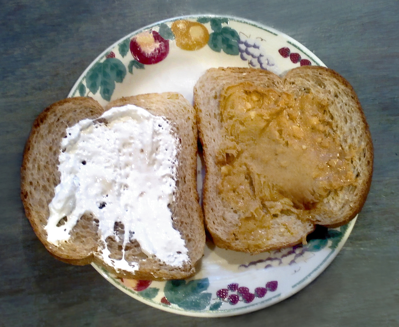 Fluffernutter before putting together.